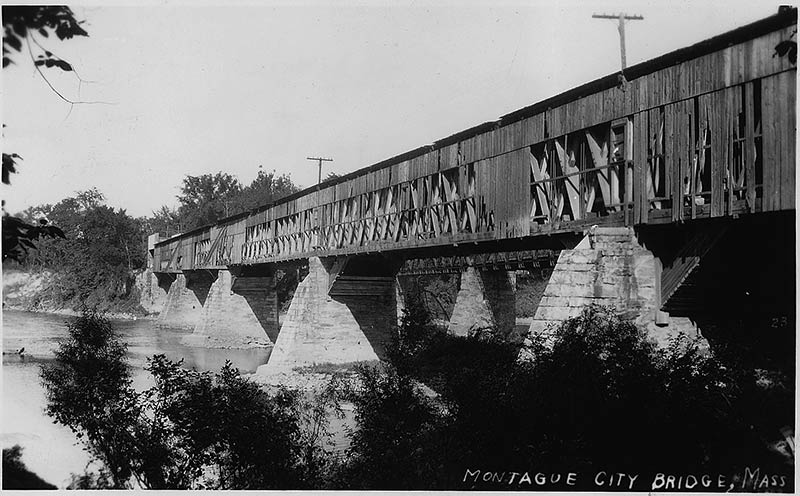 Montague City Covered Bridge, with the trolley bridge just visible in the background, crossing the Connecticut River at Montague, Massachusetts. Image taken from upstream on the west bank. Both of these bridges were destroyed by the Flood of 1936.